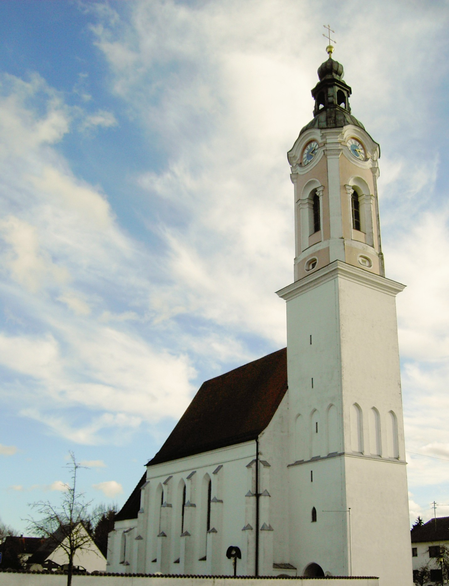 St. John's church in Zolling, view from West